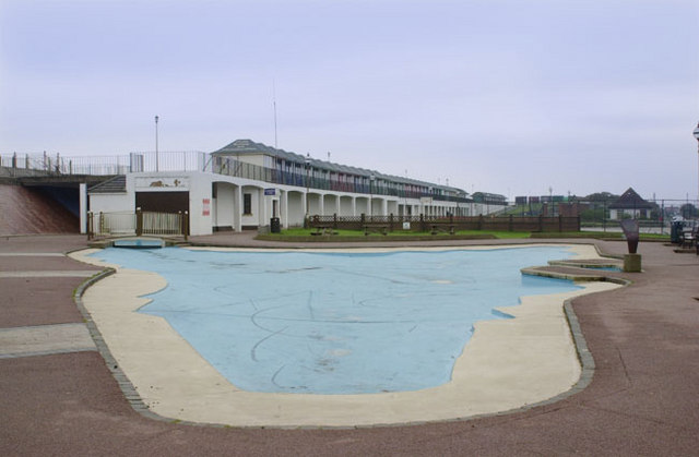 Boating and paddling pool, Sutton on Sea Fantastic seaside architecture from the past. A walk back in time.